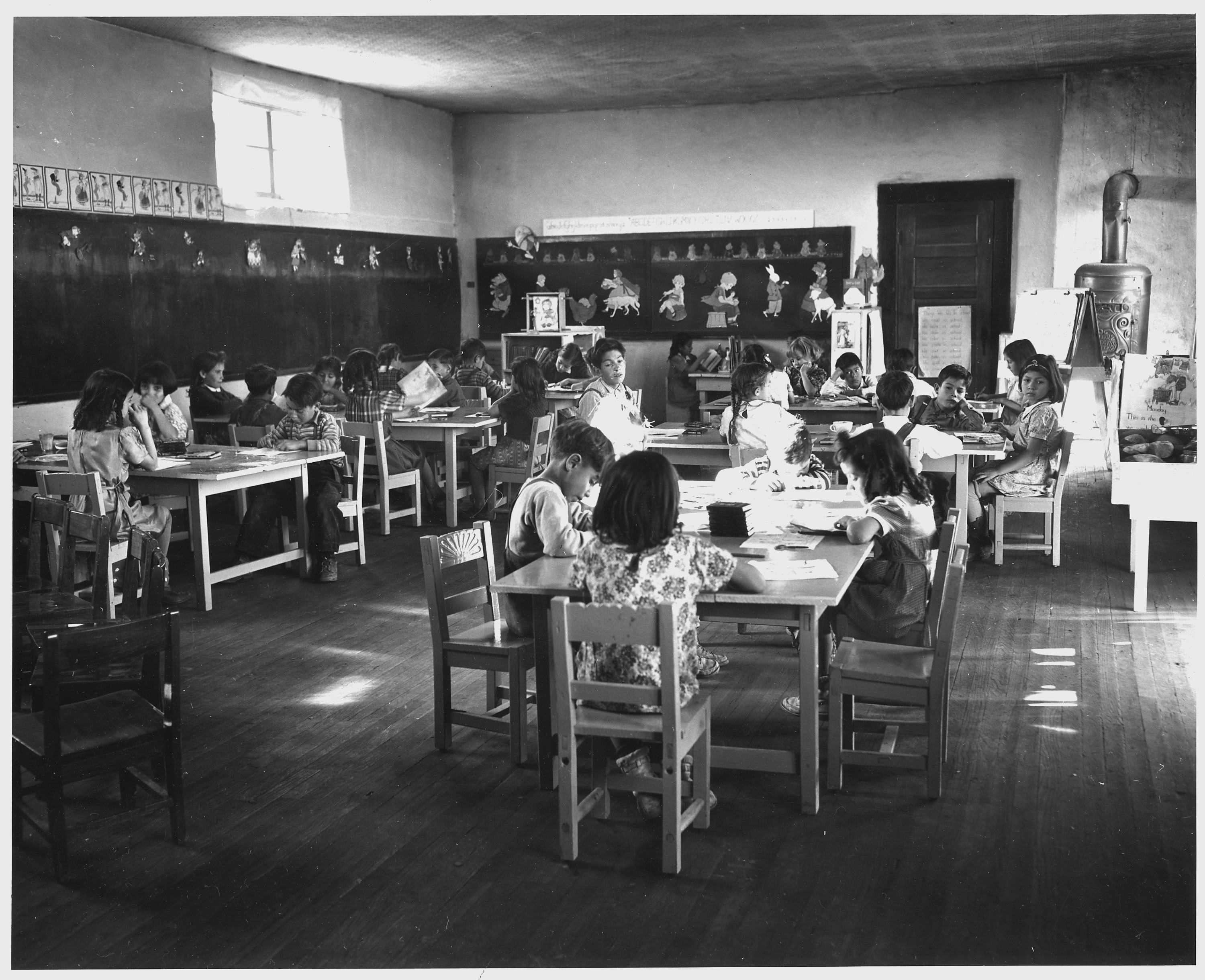 Scope and content: Full caption reads as follows: Taos County, New Mexico. Lower grade room in the Penasco school.